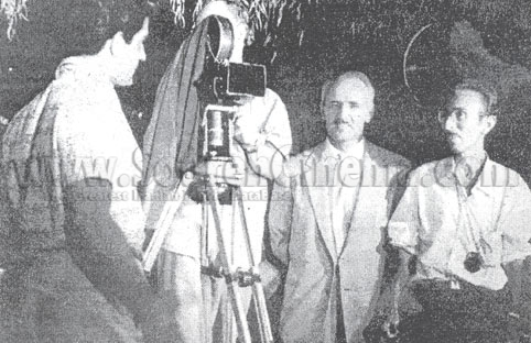 Samuel Khachikian - 1959